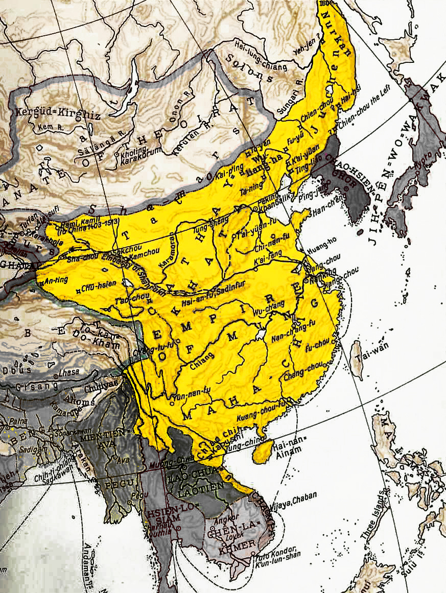 Ming dynasty at its zenith in early 15th century during the reign of the Yongle, Hongxi, and Xuande Emperors.